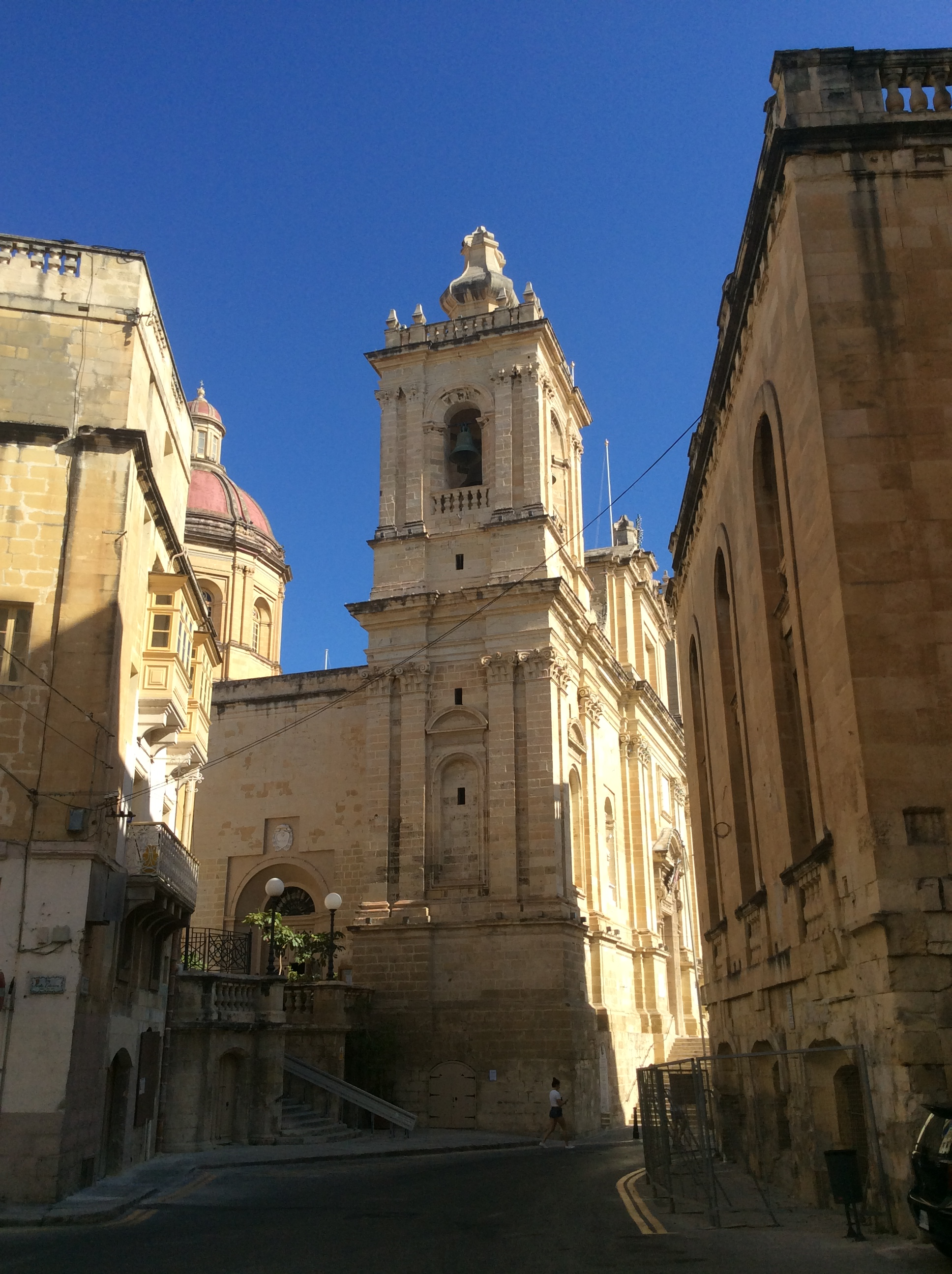 Birgu Architecture